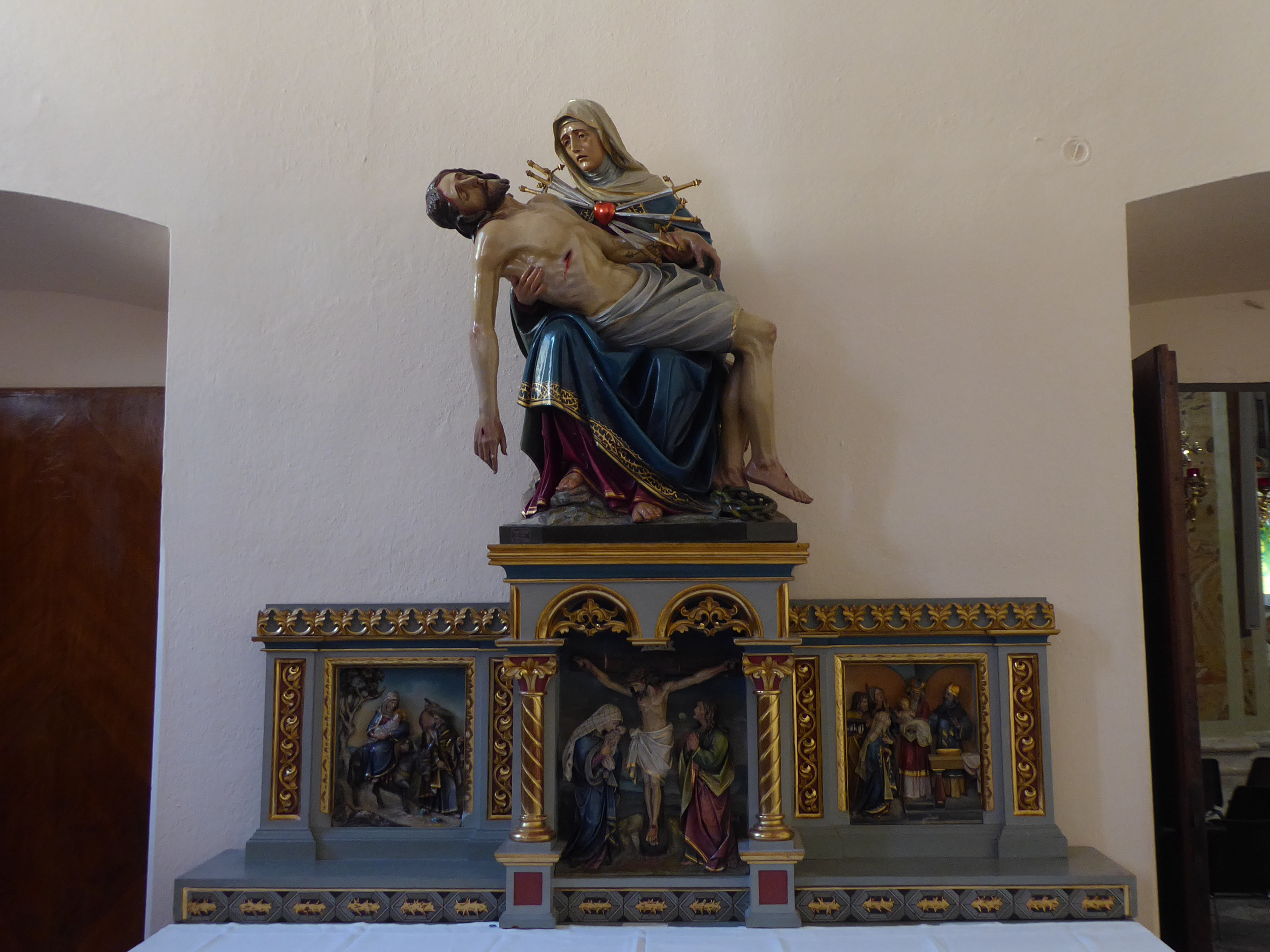 Santuario della Comparsa, Montagnaga (Baselga di Piné, Trentino, Italy), interior - Altar in the confessionals room